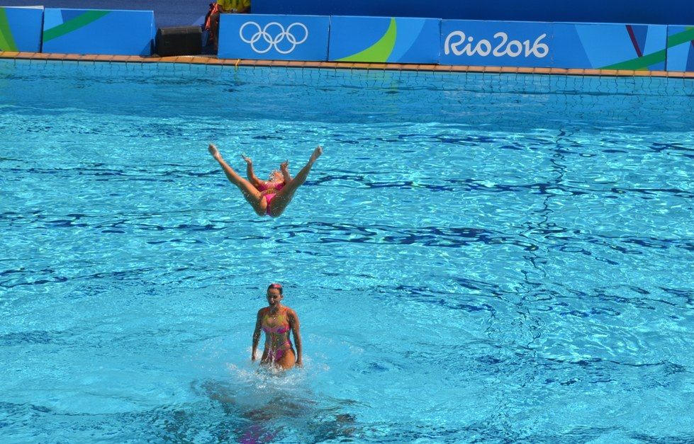 Presentation of the Brazilian team in the 2016 Olympic Games